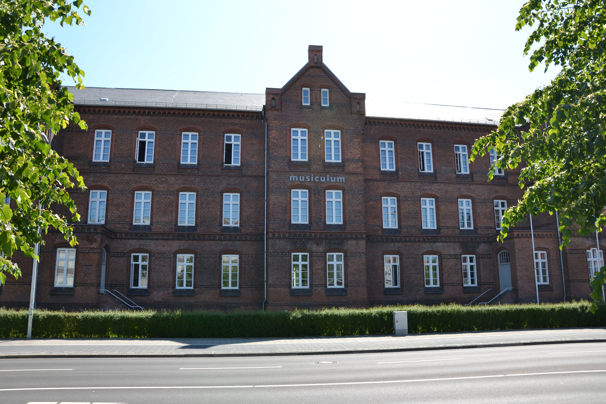 Musiculum Gebaudefassade